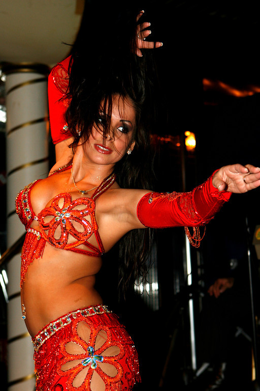 belly_dancer_6